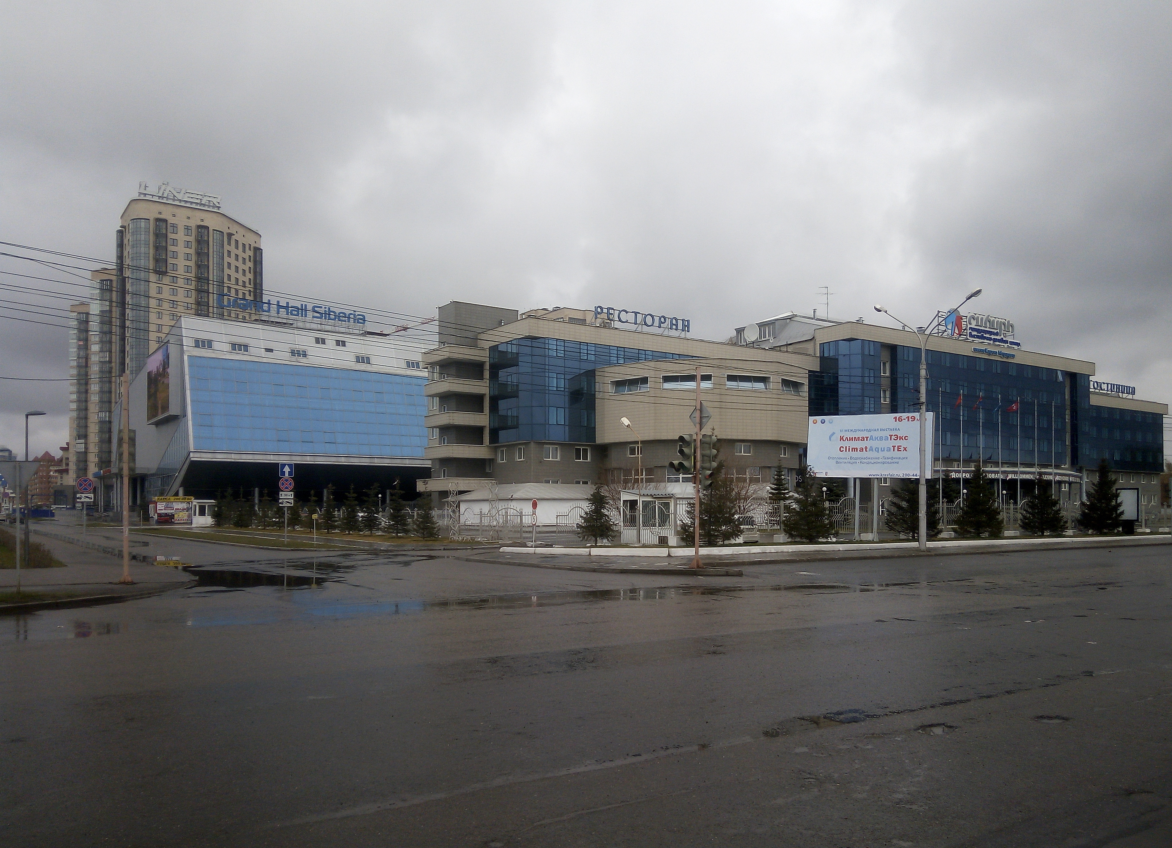 in title